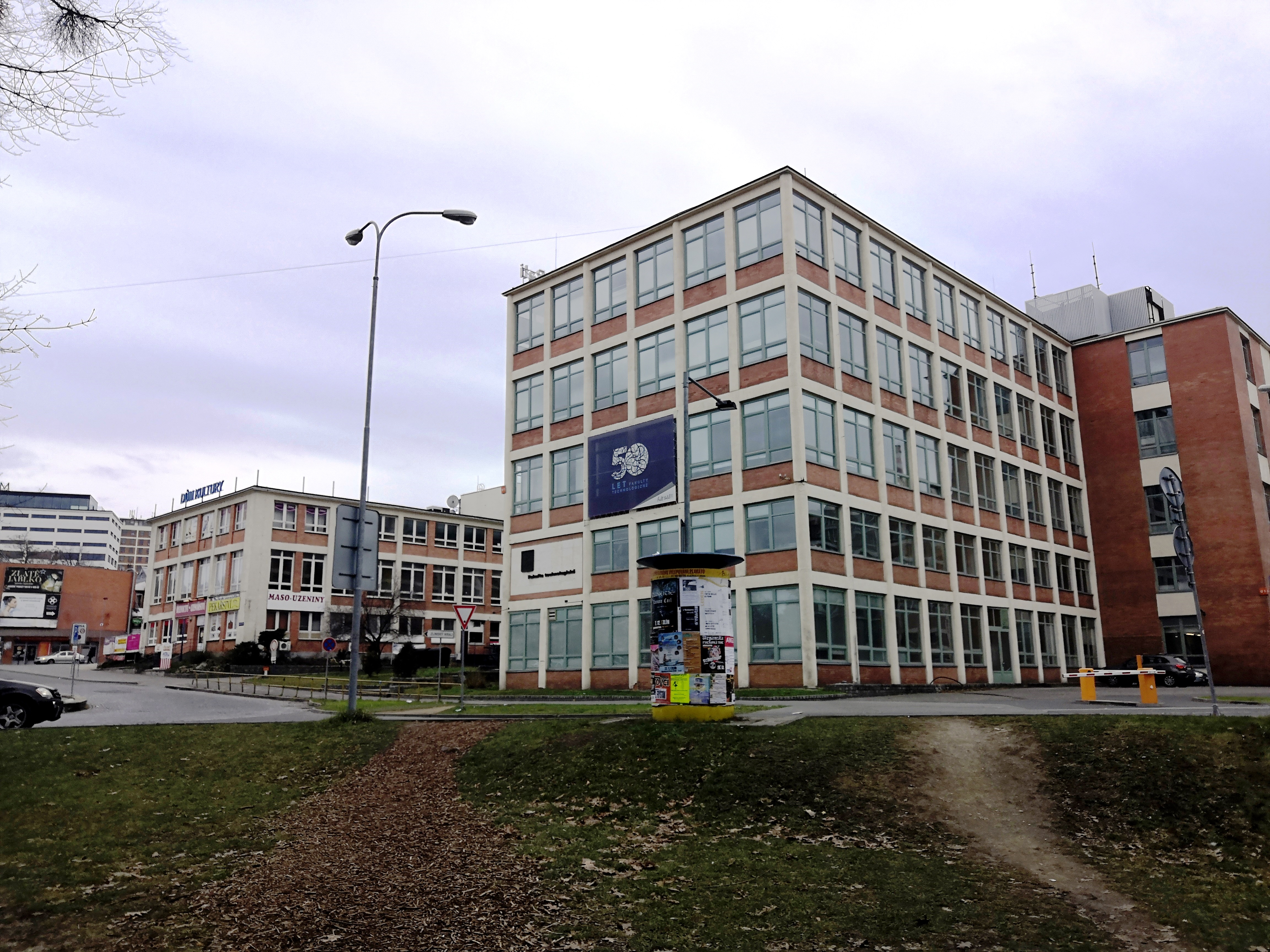 Zlín, Czechia. Vavrečkova Street.